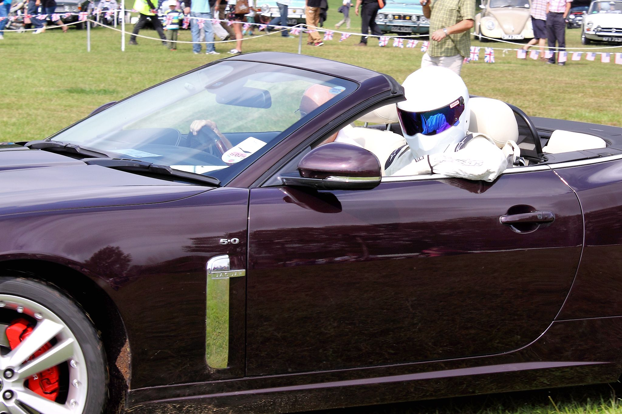 The Stig - Knebworth Classic Car Show 2013